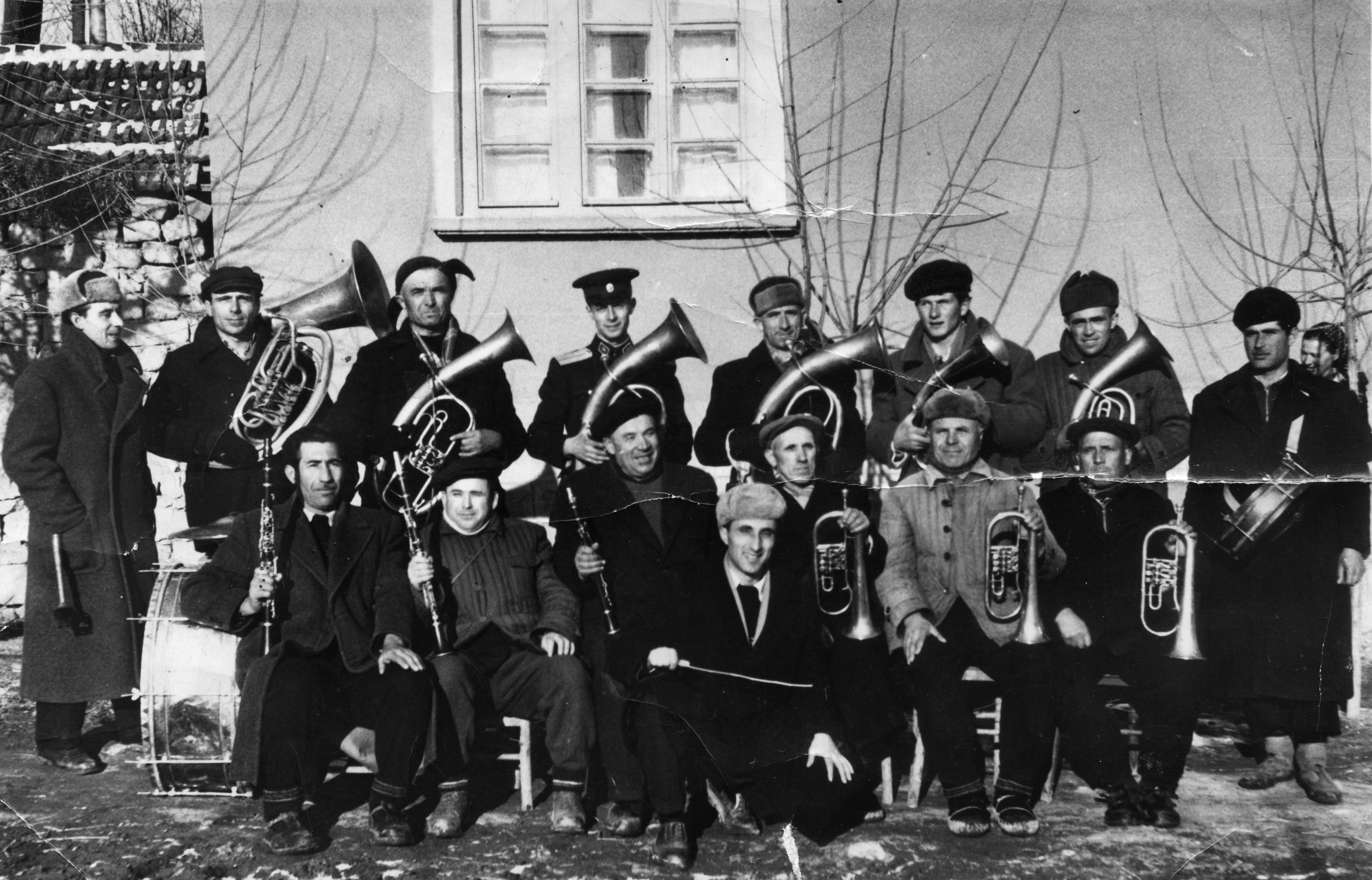 Orchestra from Brass instruments of v. Mihajlovo, Vraca Province, Bulgaria-1962